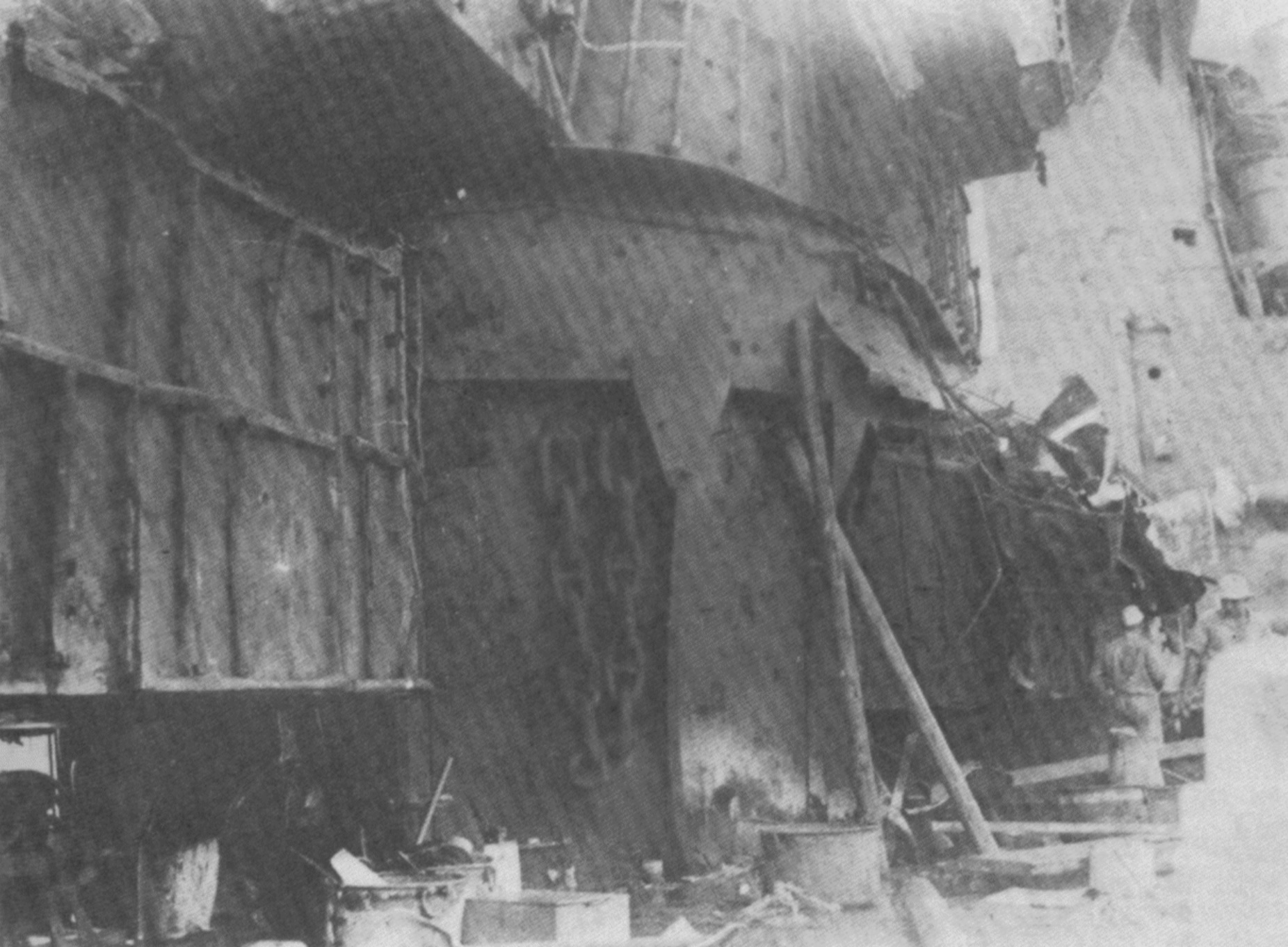 Picture of battle damage to Japanese heavy cruiser Myōkō. The 600-lb pierced the port side of the upper deck abreast 20-cm turret #2, exploding on the middle deck.